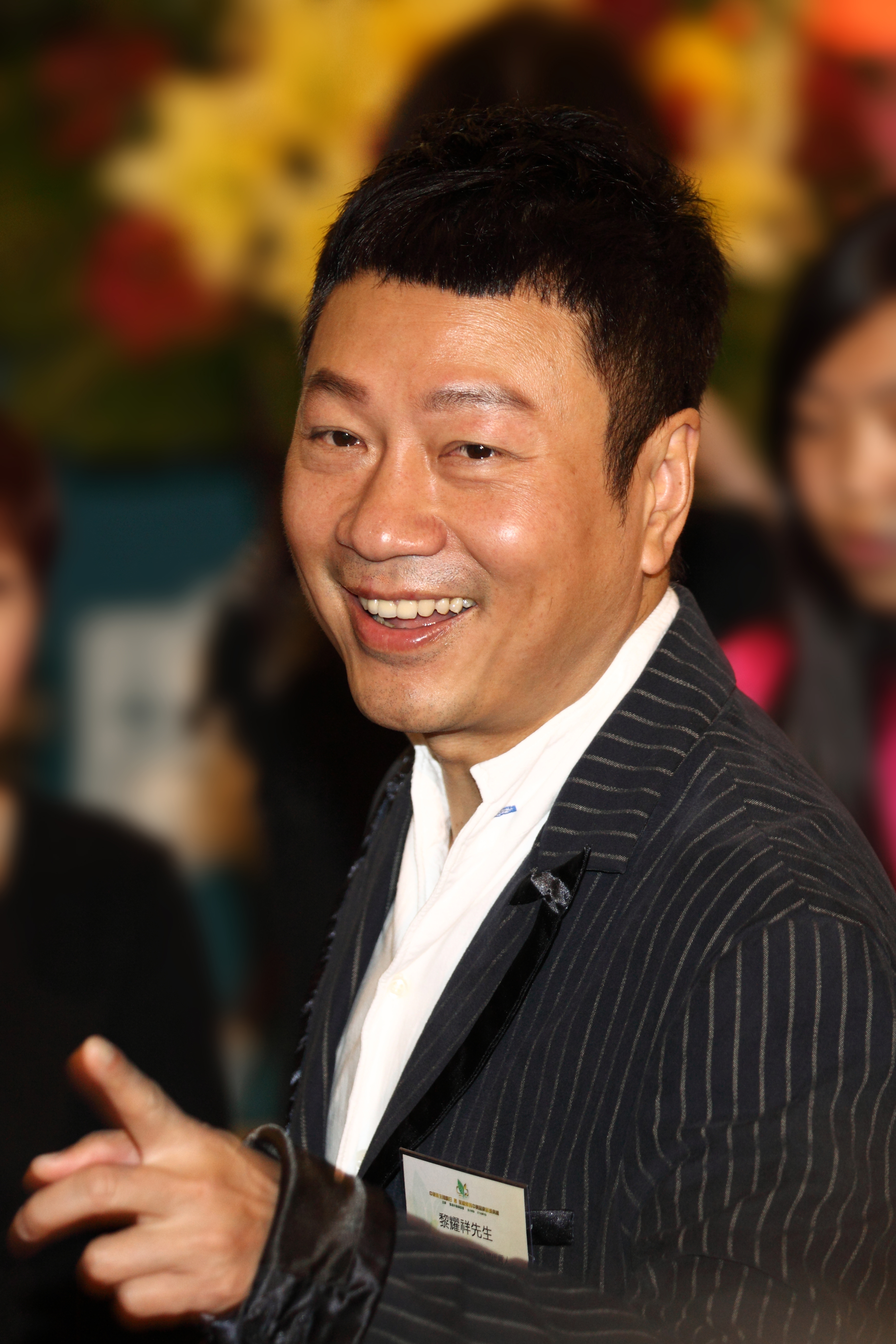 Wayne Lai in 2014